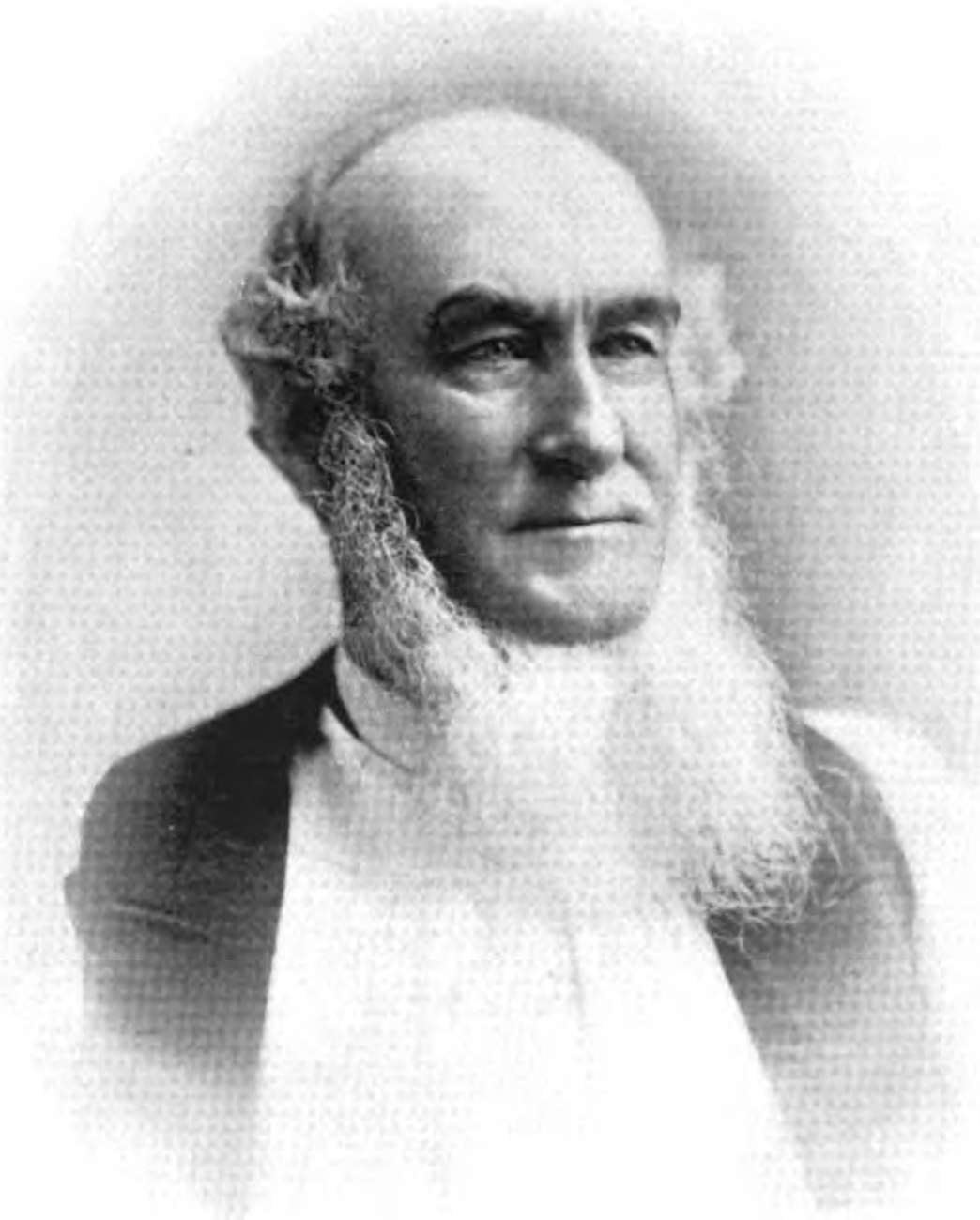 Picture of Thomas H Vail